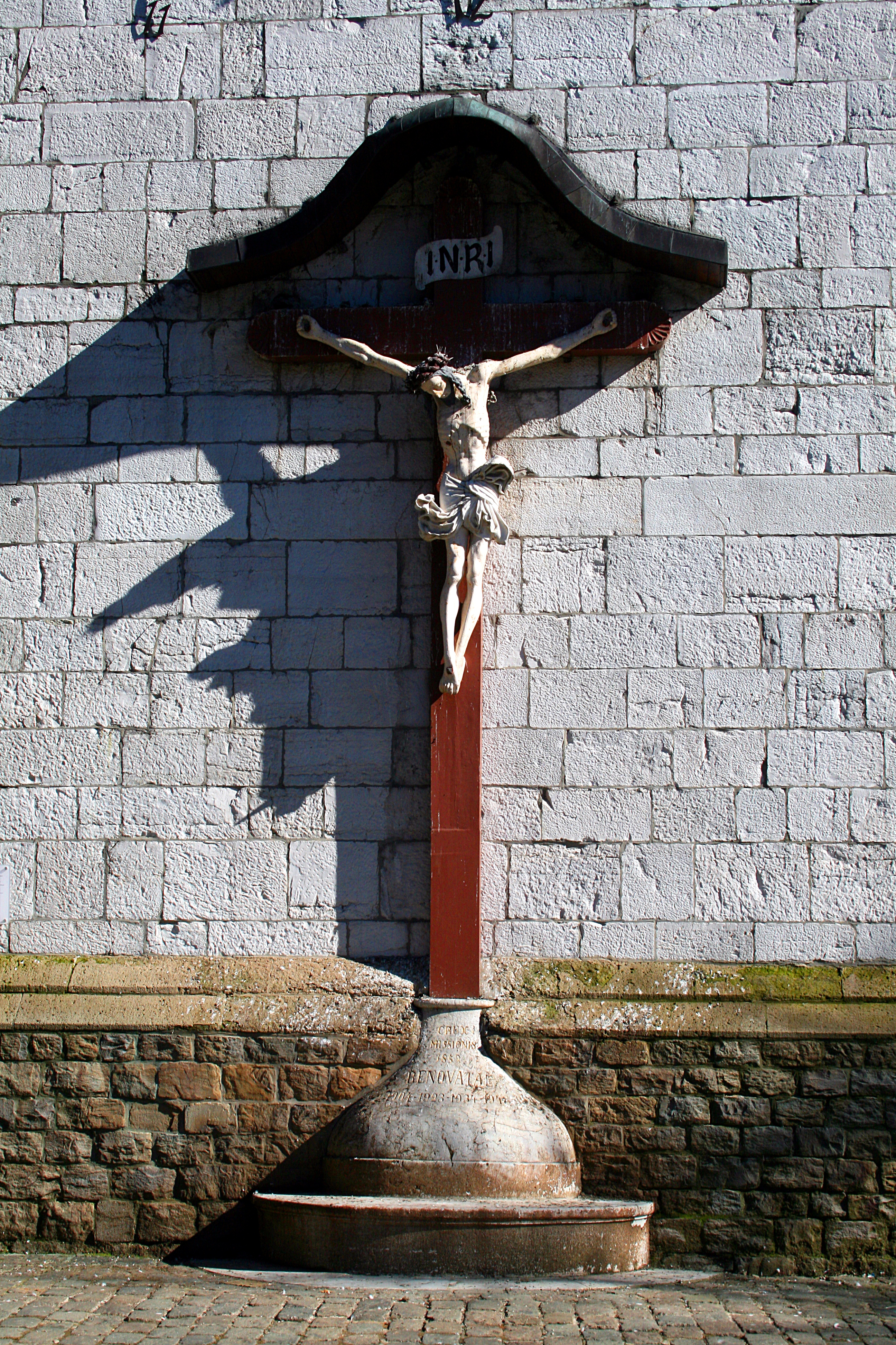 Eupen, calvary of the St.-Nikolaus-Kirche.